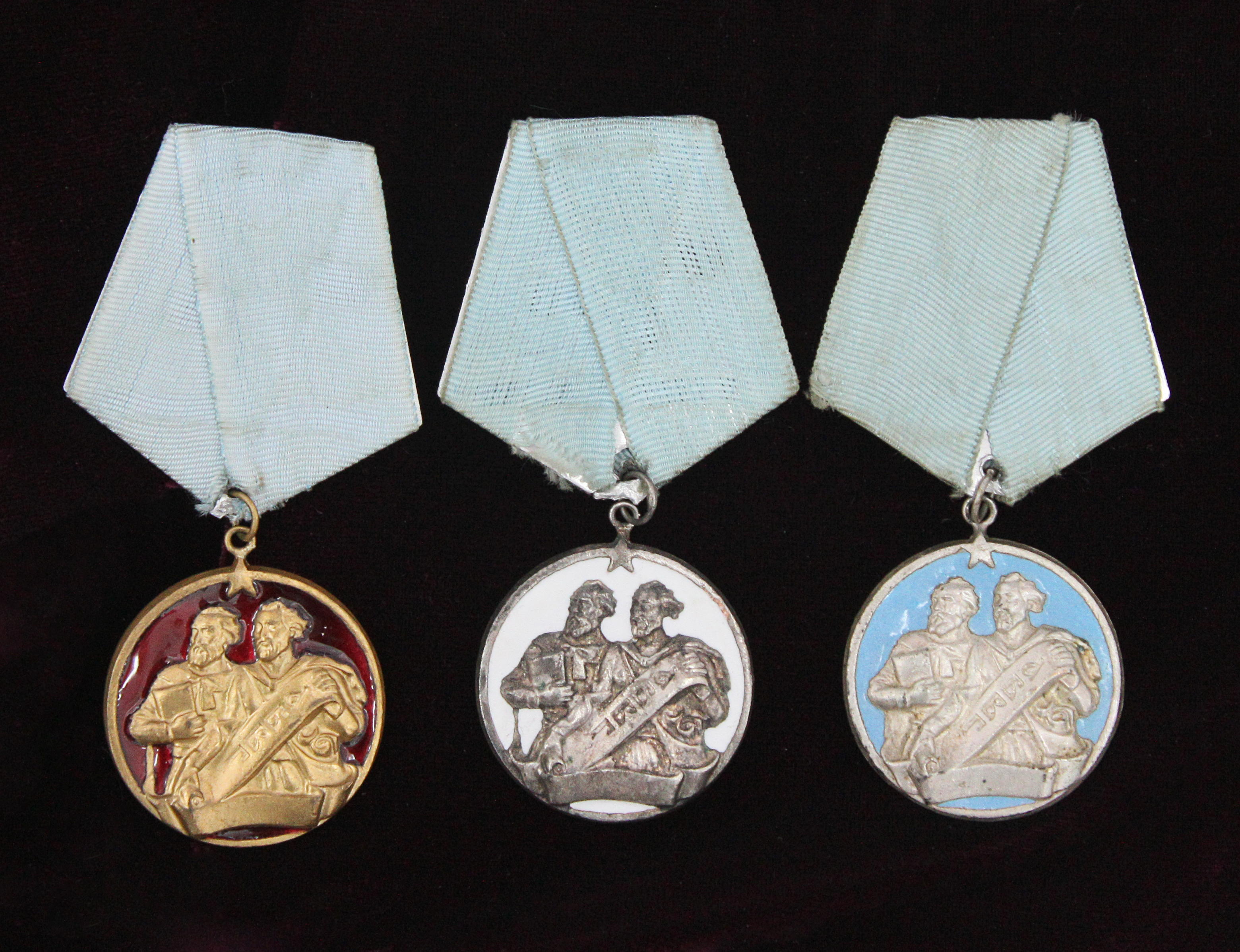 Historic Museum Ivailovgrad, Bulgaria